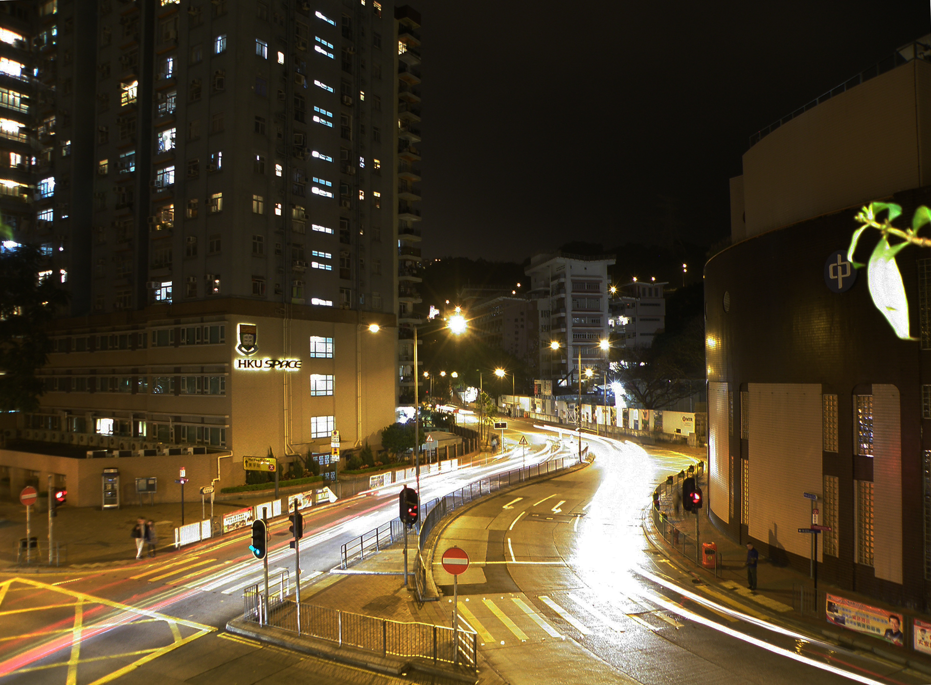 Mei Lai Road in Mei Foo, Hong Kong.